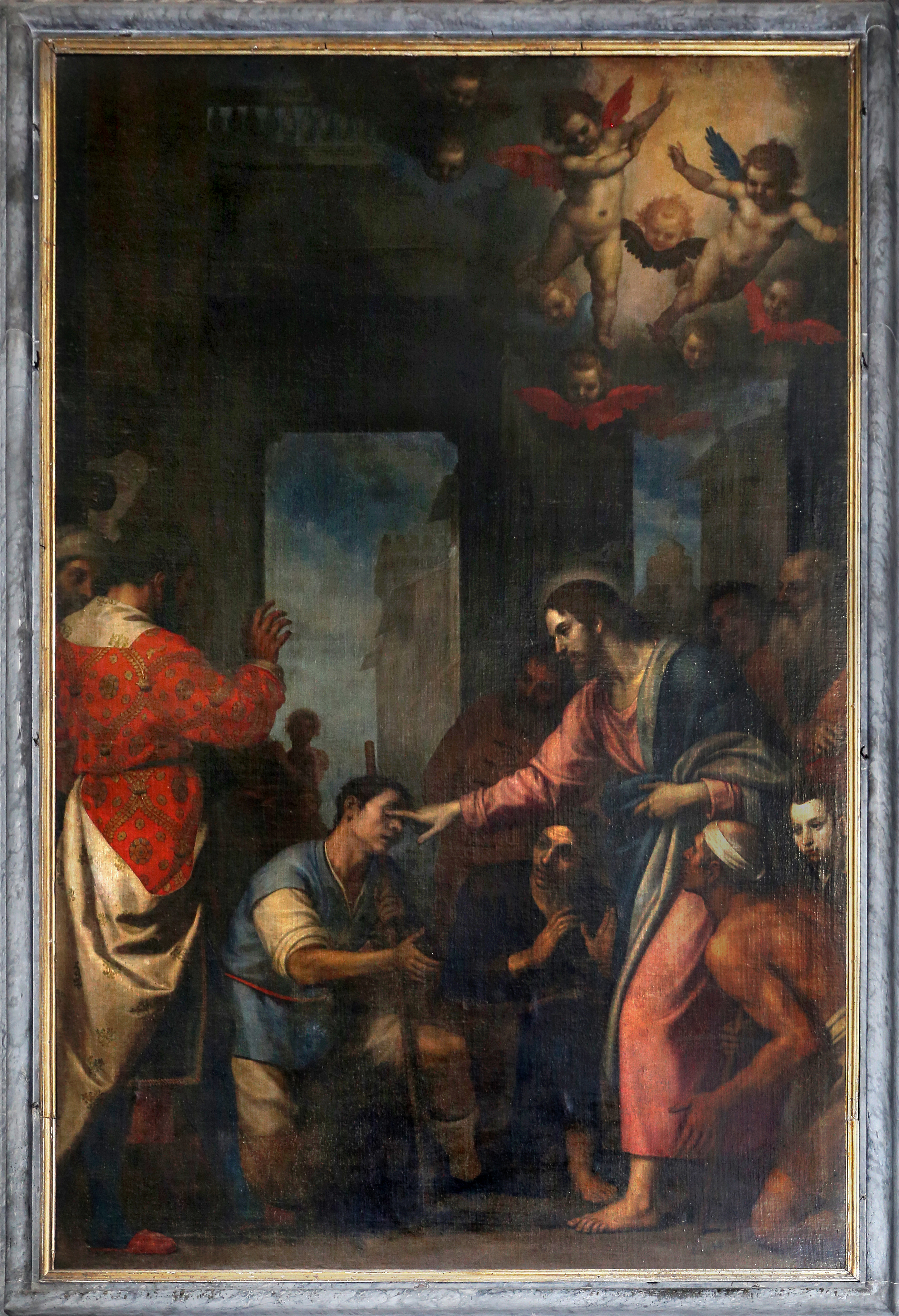 Santissima Annunziata (Florence) - Blind Man Chapel